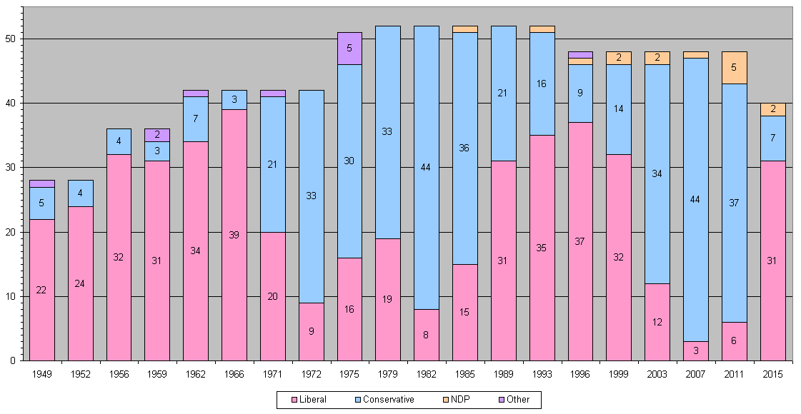 Image created by me from a graph produced in MS Excel, using data from List of Newfoundland and Labrador general elections. Tompw (talk) 17:37, 7 December 2006 (UTC)